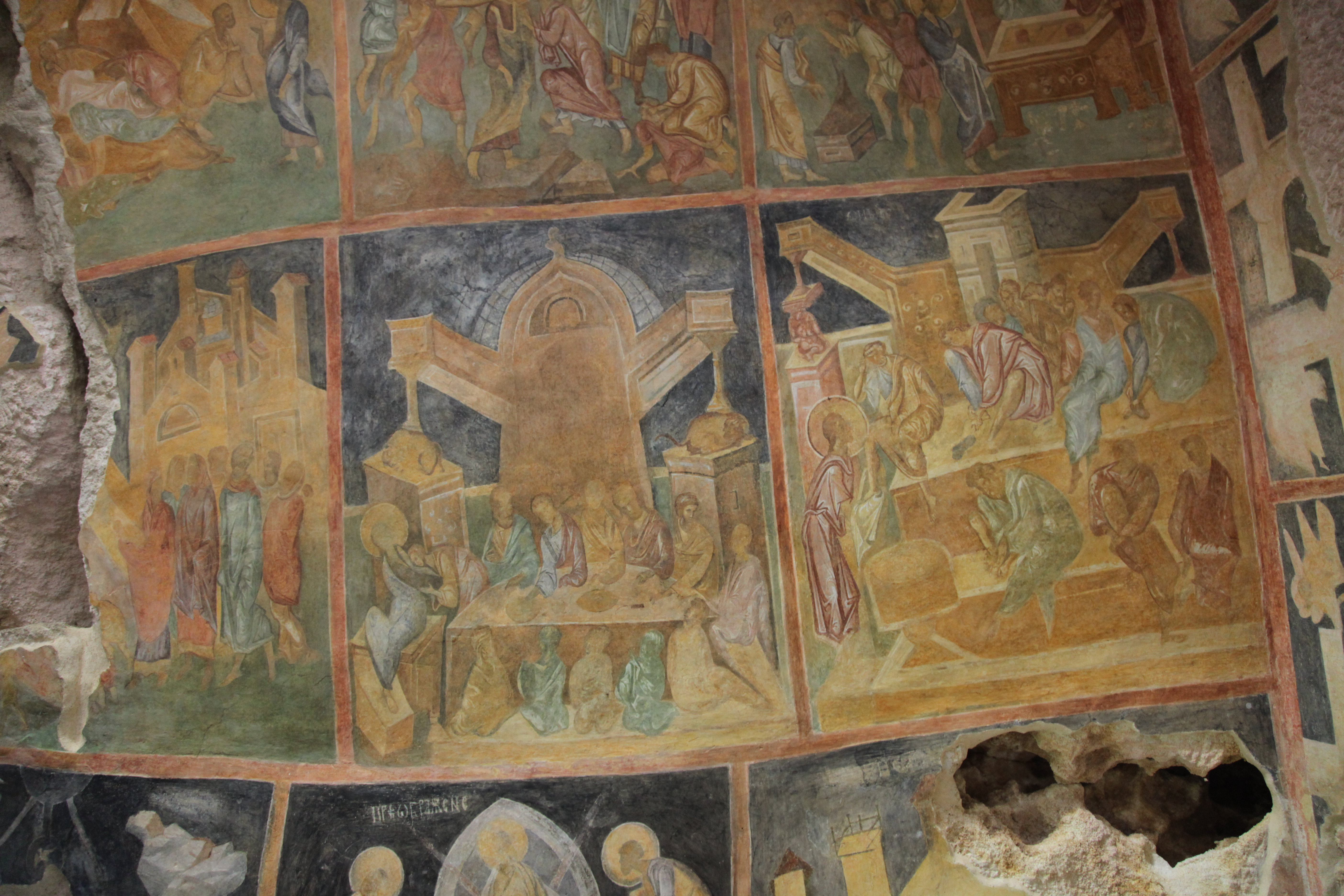 Fresco in a Rock-hewn Church of Ivanovo